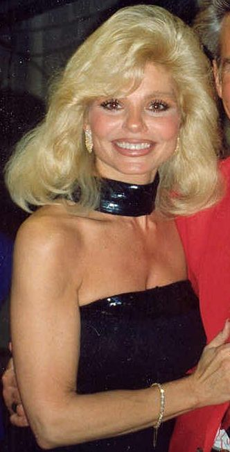 Loni Anderson